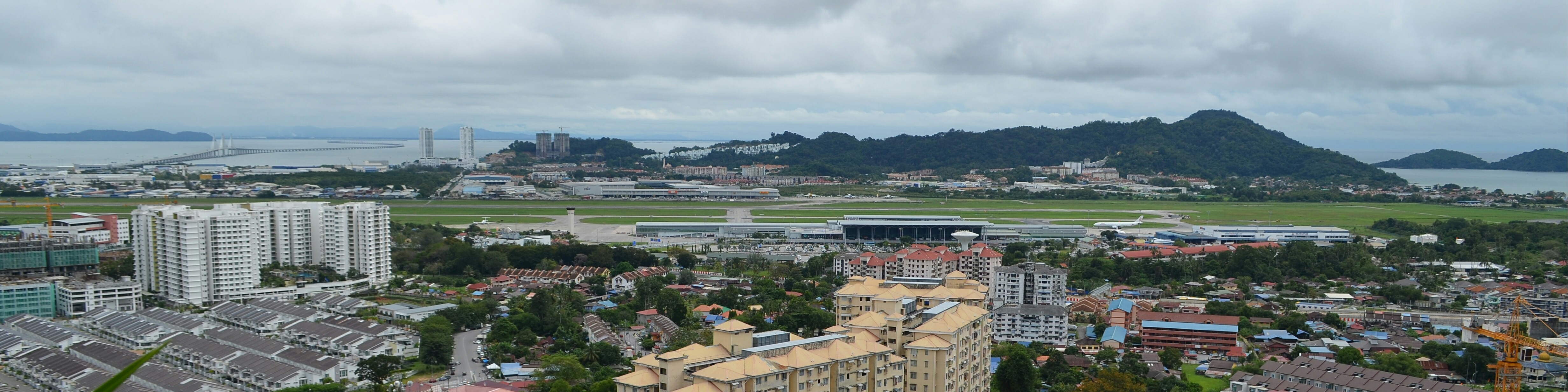 Panoramic aerial view of Penang airport and second bridge in January 2017.